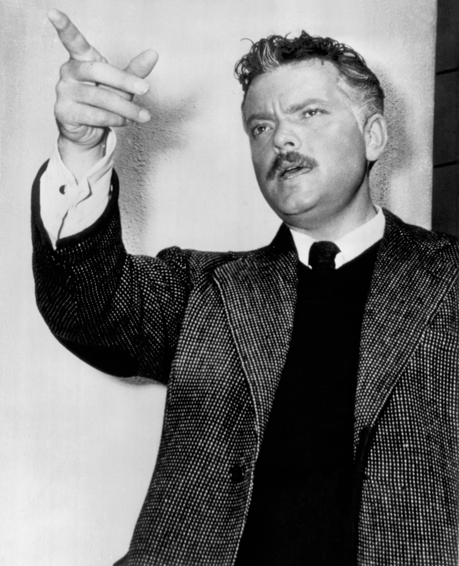 Candid photograph of Orson Welles dated October 29, 1945